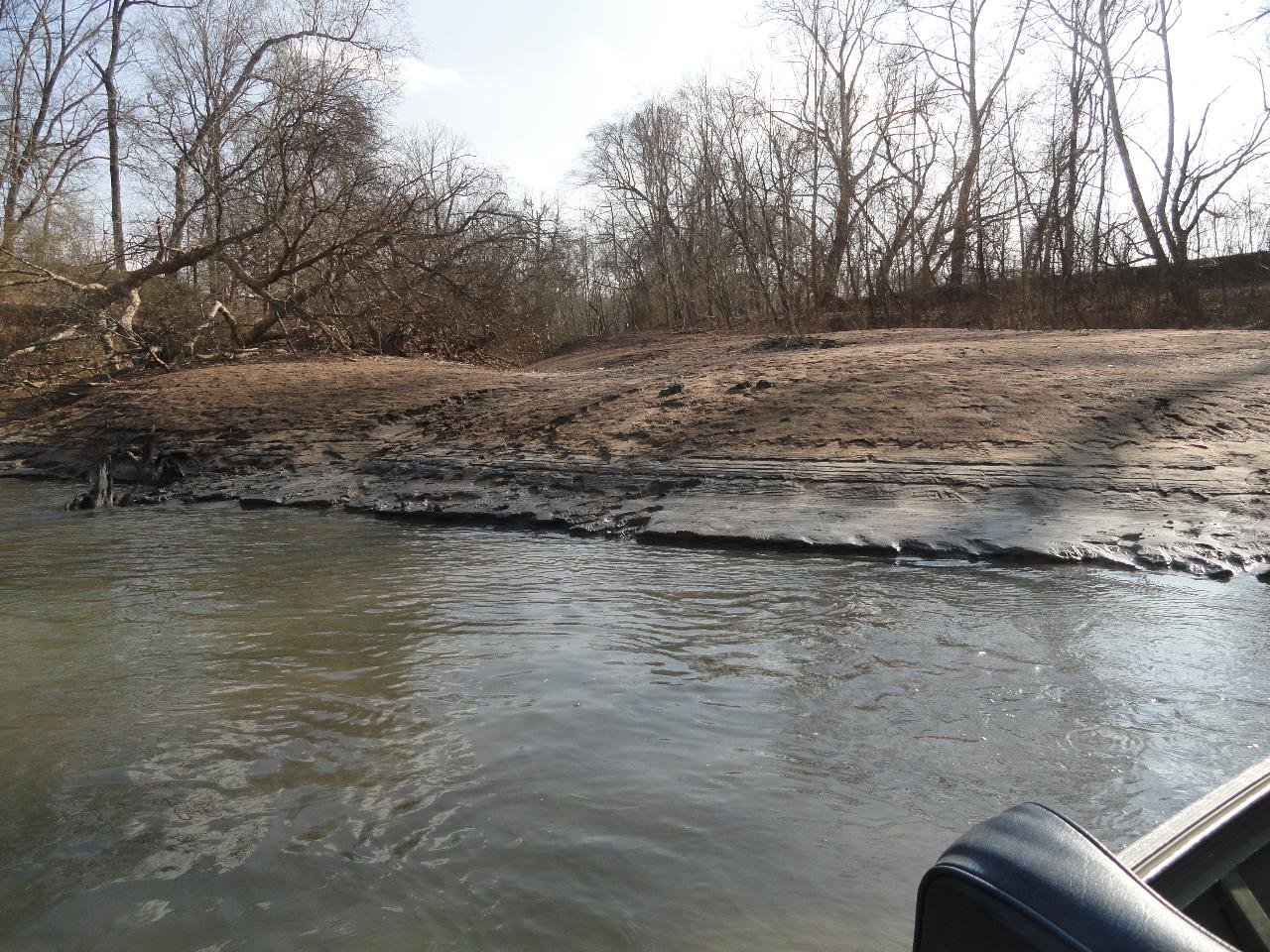 View of coal ash deposits on the Dan River shoreline, approximately 0.75 miles (1.21 km) from the discharge pipe of the Dan River Steam Station (Duke Energy), Eden, North Carolina. A collapsed coal ash impoundment at the power plant caused a spill of 39,000 tons of coal ash into the river in 2014. See 2014 Dan River coal ash spill.